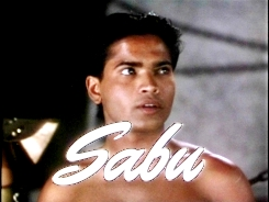 Trailer screenshot of Sabu in Cobra Woman